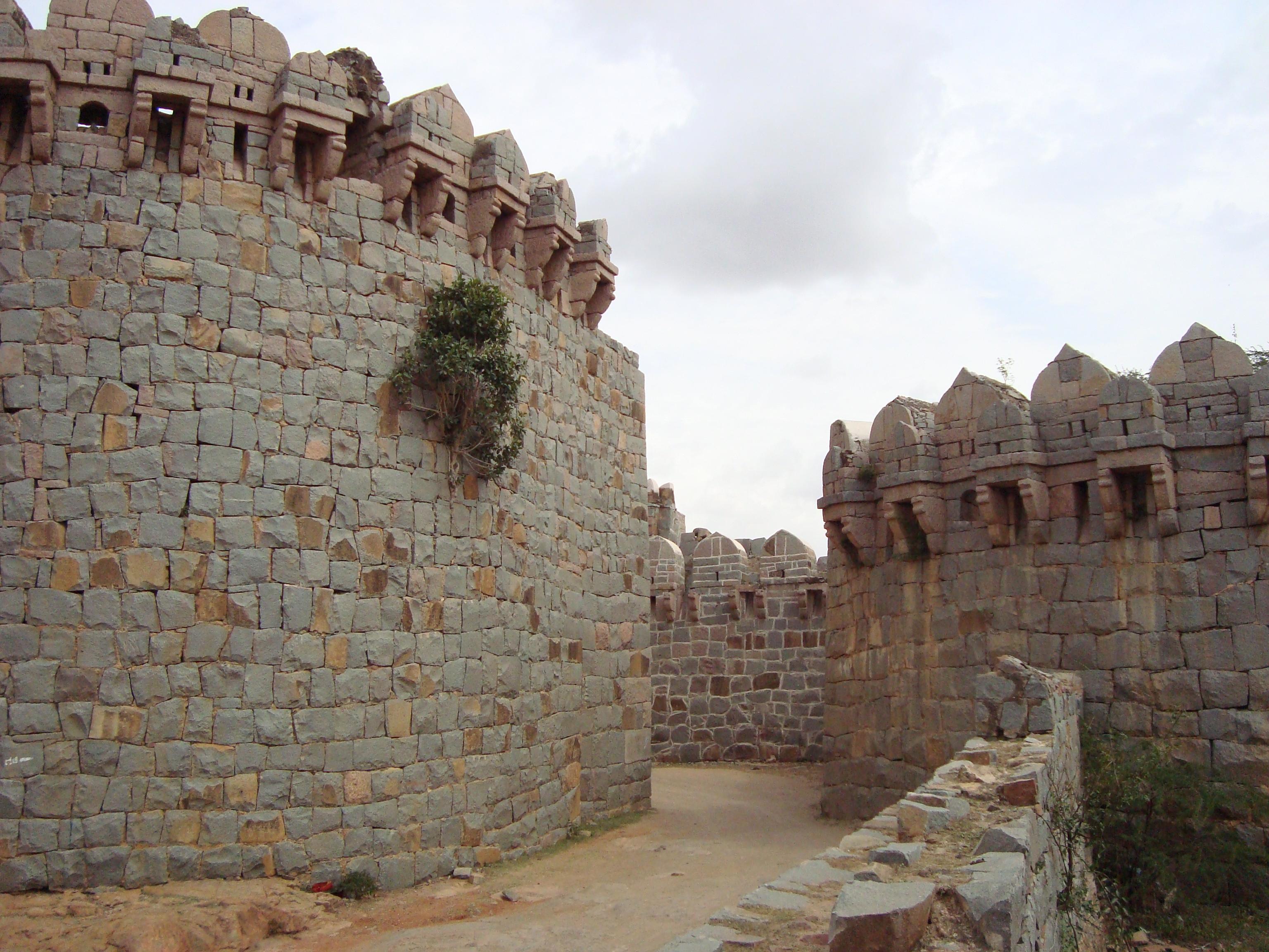 Mudgal fort Source and Author : Manjunath Doddamani, Gajendragad / Hubli, Karnataka, India